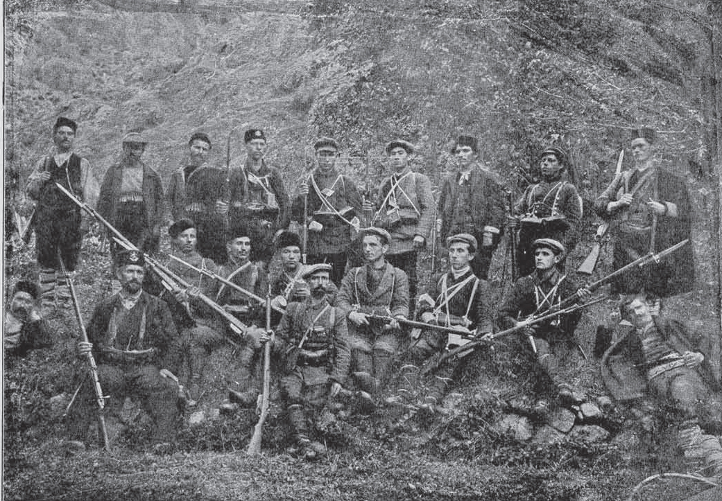 Partisan cheta of Boris Iliev - MOO